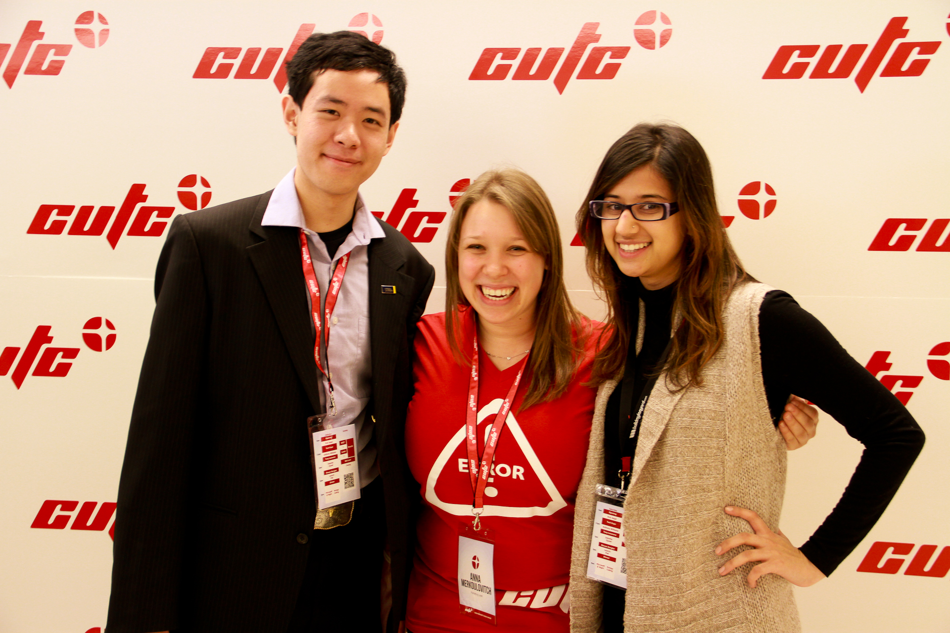 Delegates and organizers of CUTC